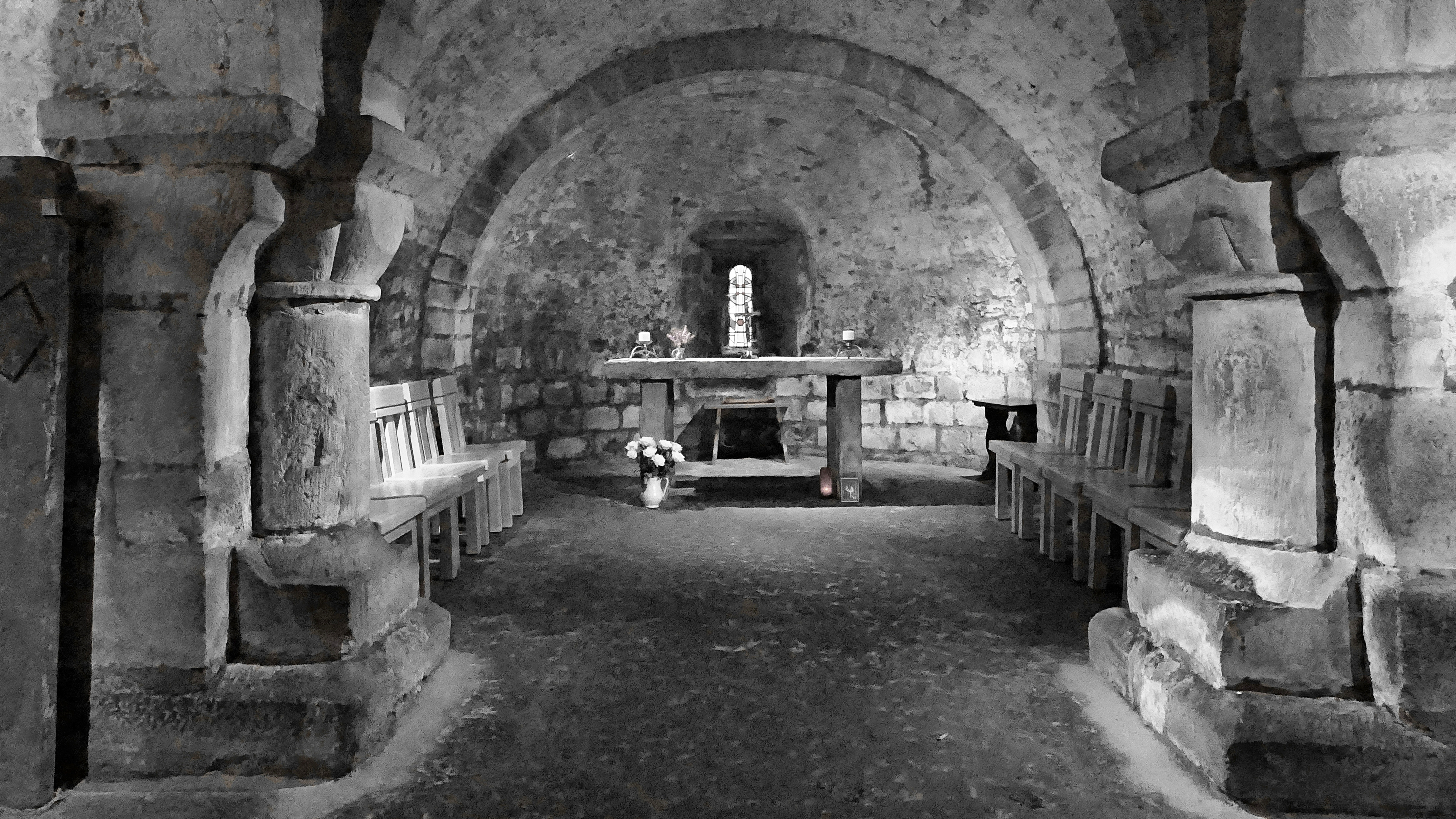 Inside the crypt of St Mary's church, Lastingham, North Yorkshire, looking east to the apse